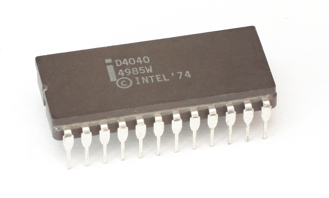 CPU Intel D4040 ceramic DIP.